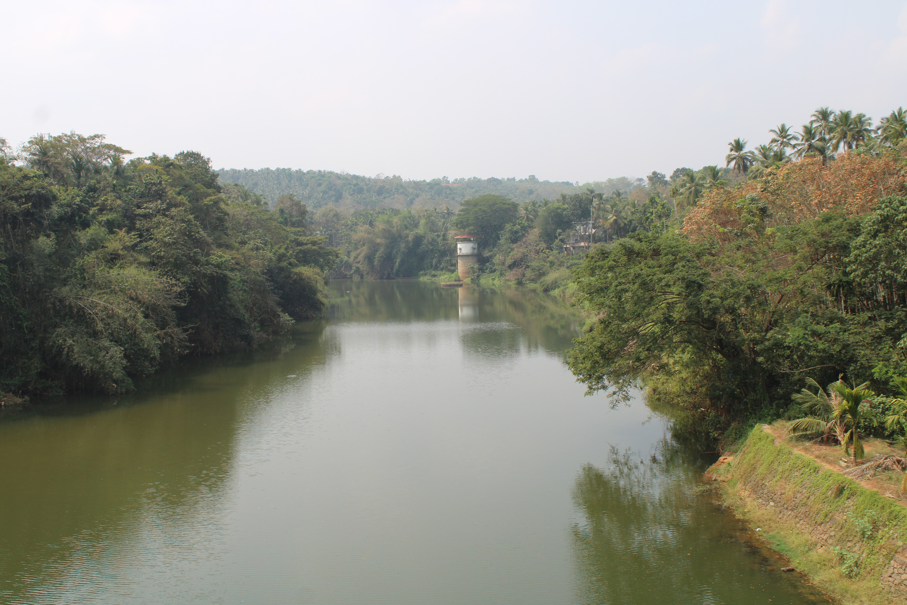 Pumb House, Thonikkadav, Anakkayam